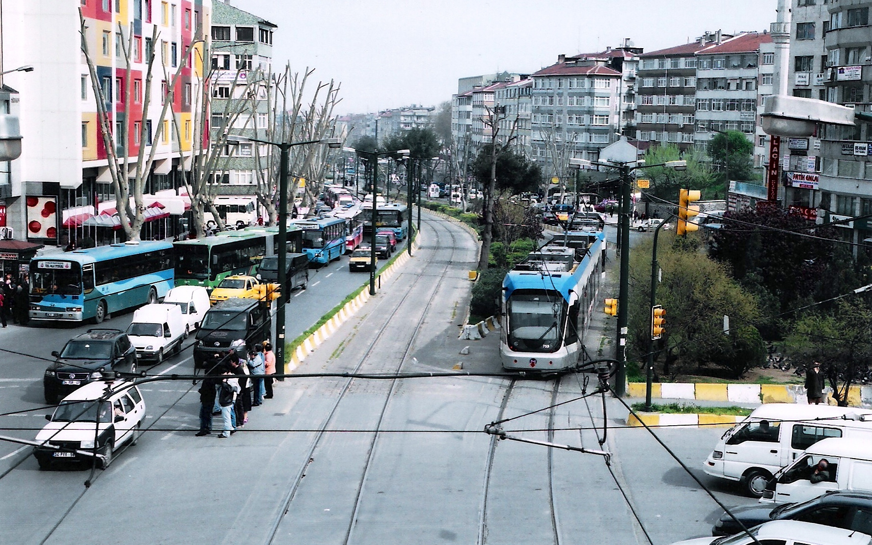 I, RMehra, have taken this picture in Istanbul in April 2006.